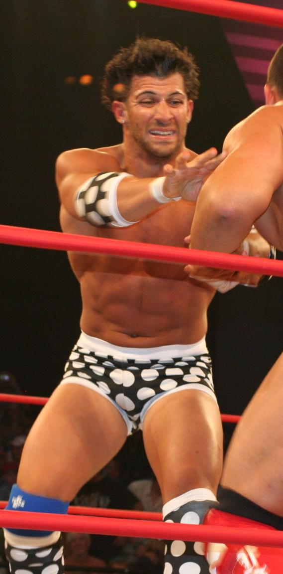 Professional wrestler Rob Eckos in a match against Bobby Fish at a TNA Impact! taping